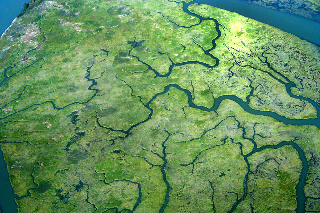 Mudflats, photo taken from a Seaplane while flying from Vancouver to Victoria August 2006 , Canada.